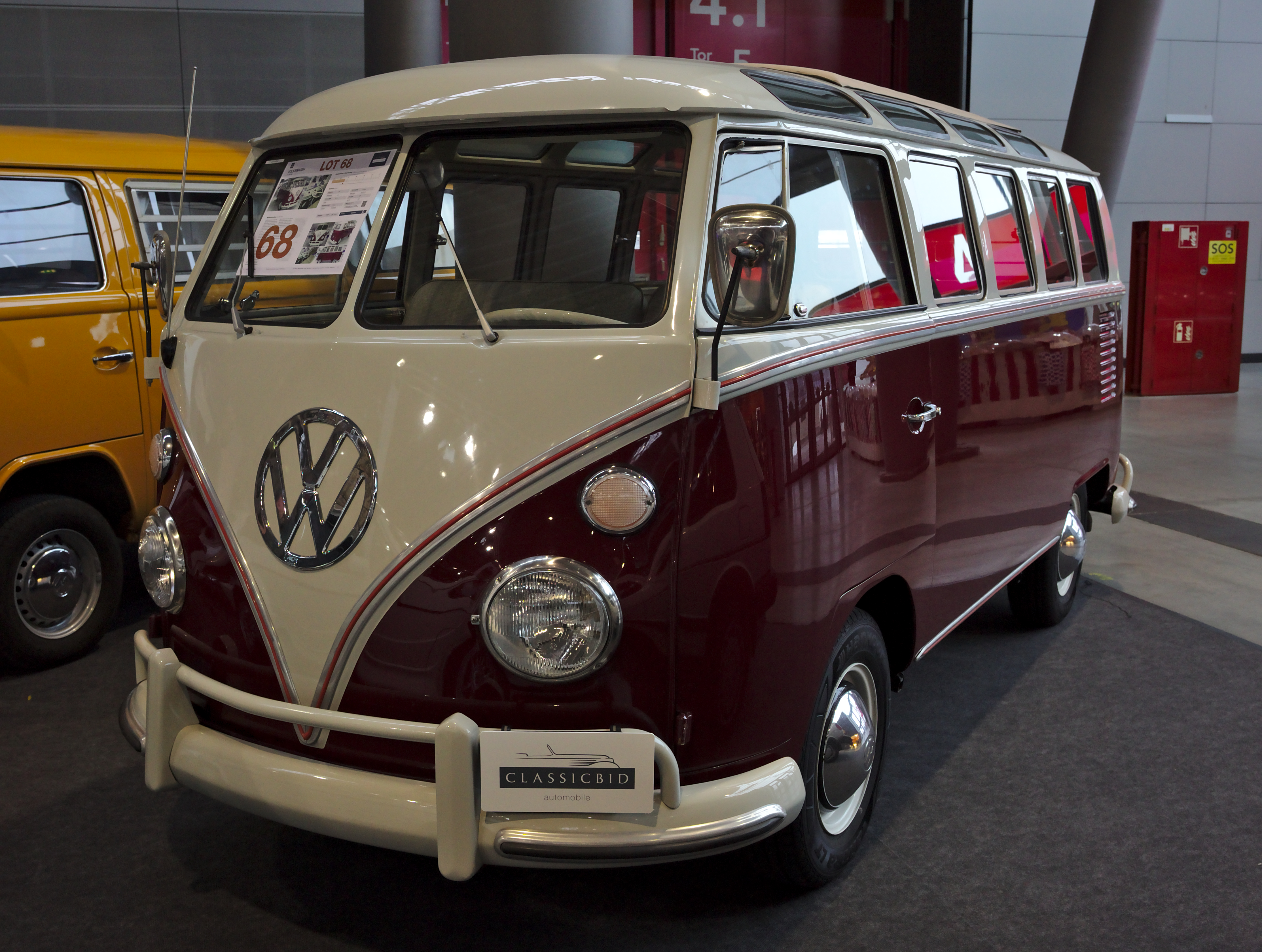 VW T1 Samba at Retro Classics 2018